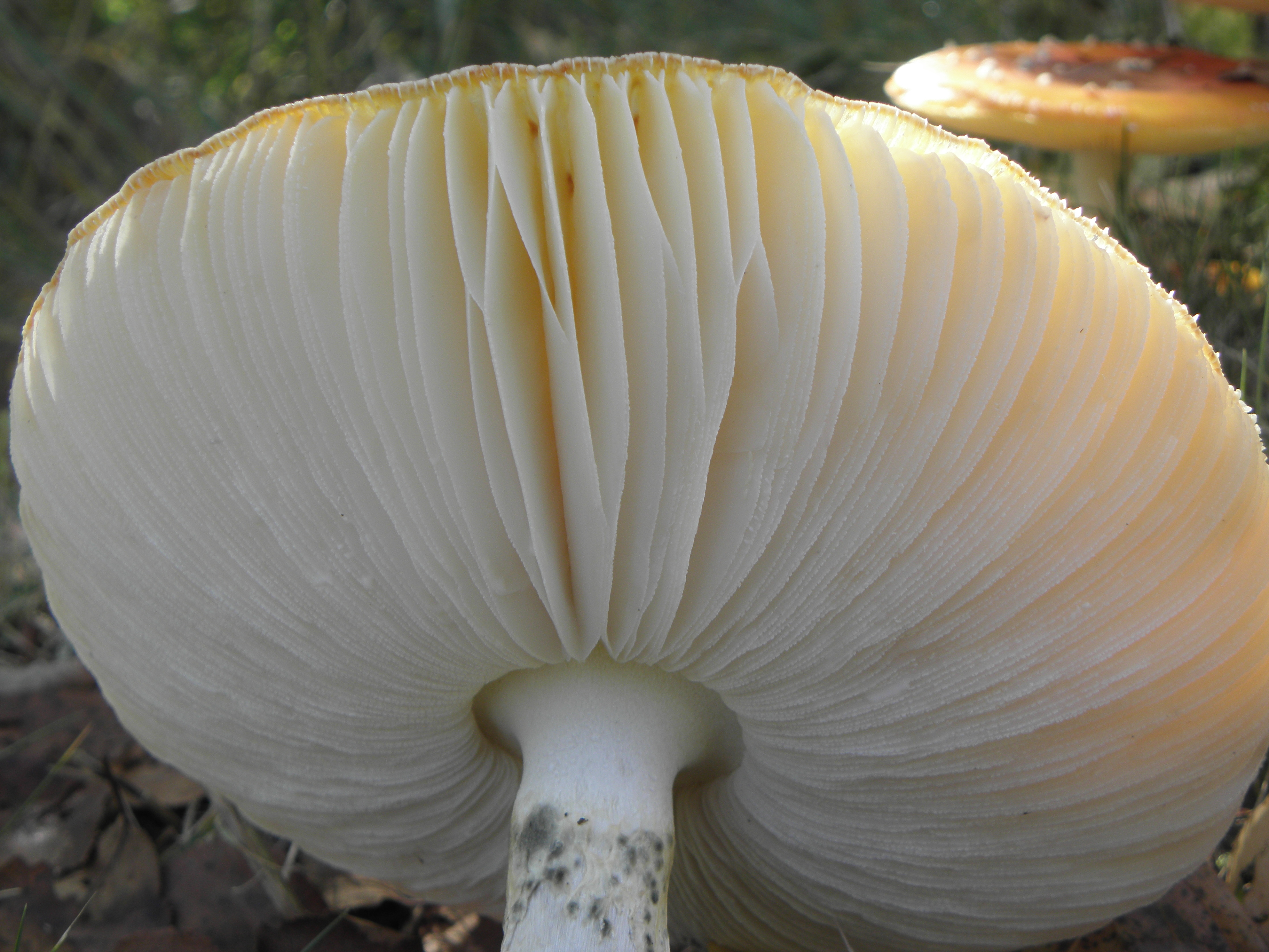 Fly Agaric